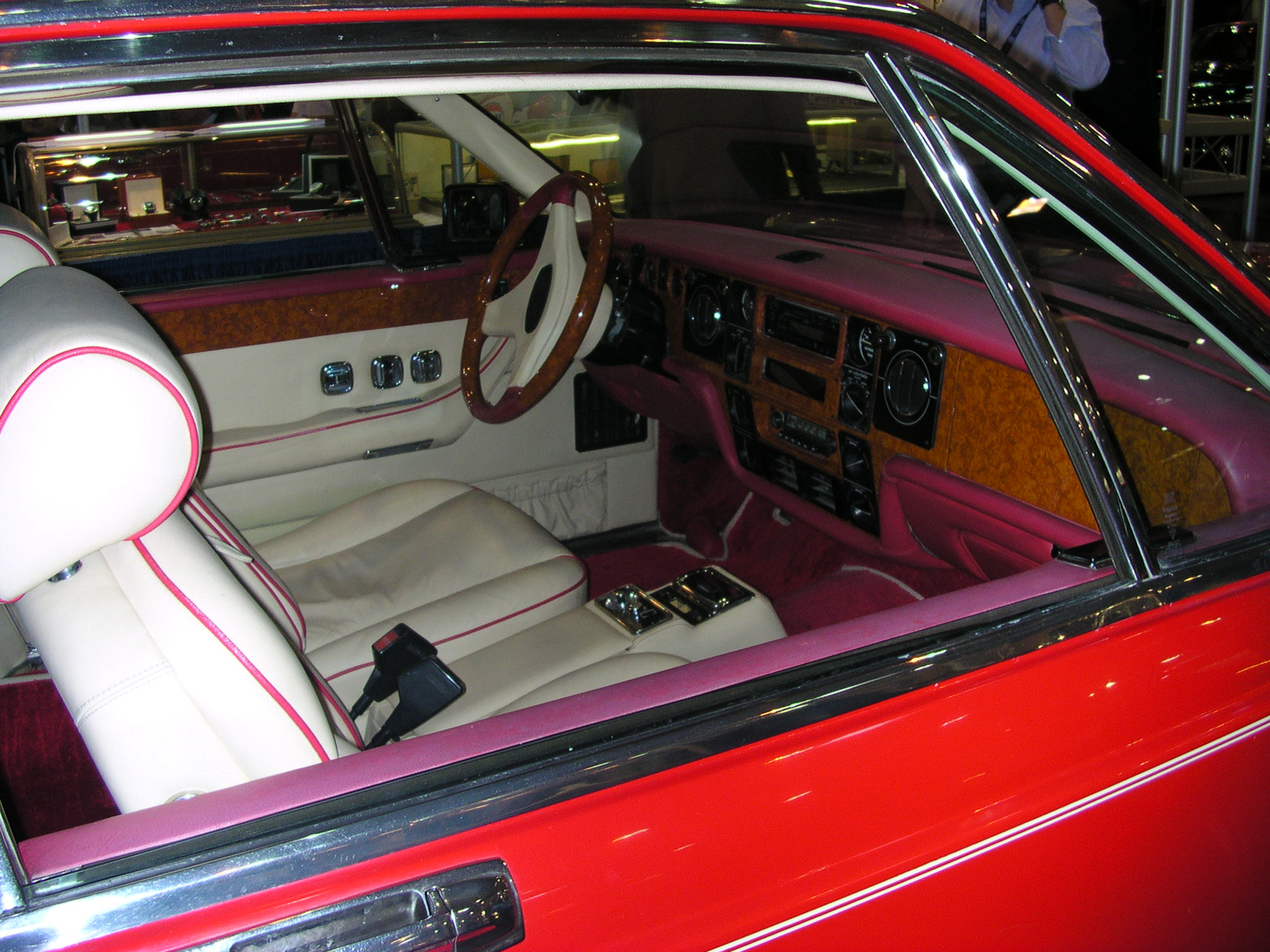 Essen Techno-Classica 2007, Rolls Royce Camargue, design by Sergio Pininfarina 1982, build by Muliner Park Ward